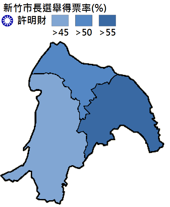 Hsinchu provincial cities mayoral election 2009